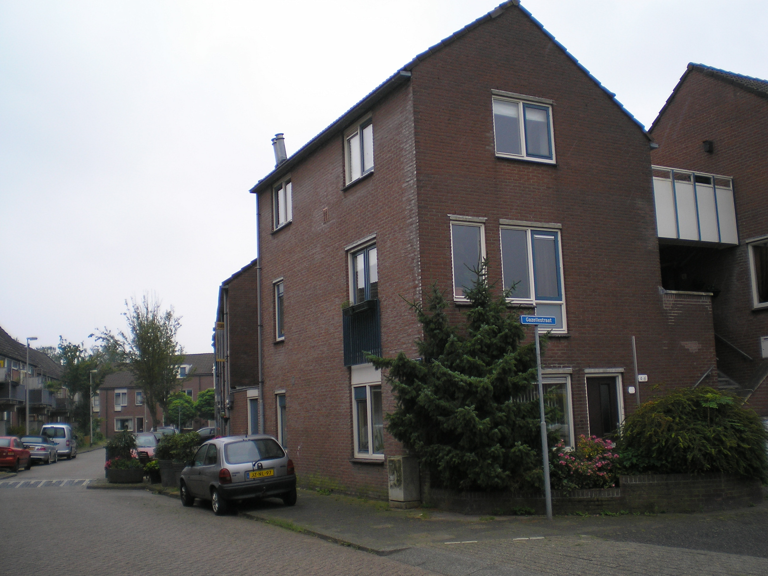 Bokkenbuurt in Utrecht in the Netherlands